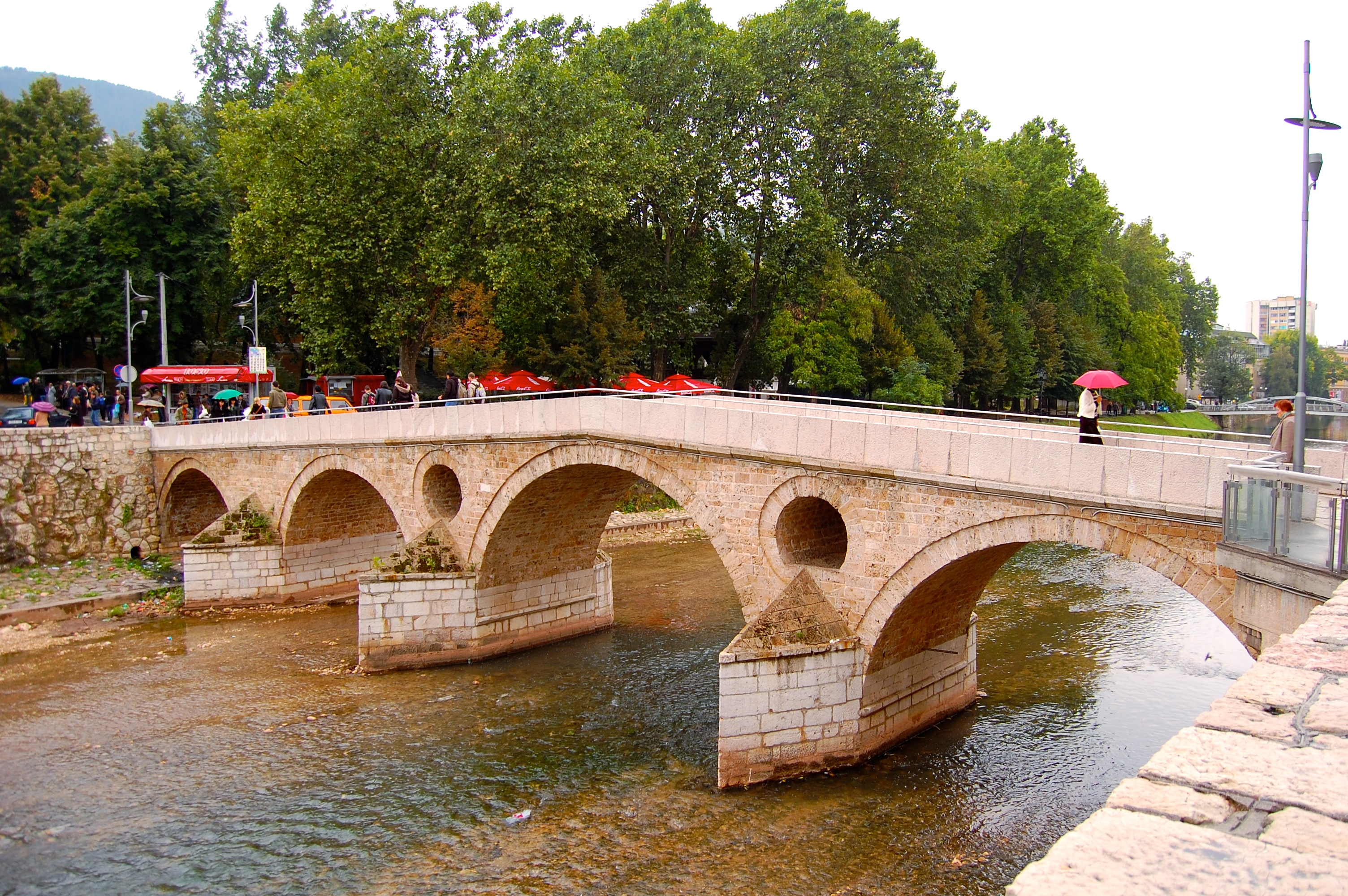 The site of the beginning of world war I. This is the bridge on which Franz Ferdinand, heir to the Austrian throne, was assasinated by a Serbian national.